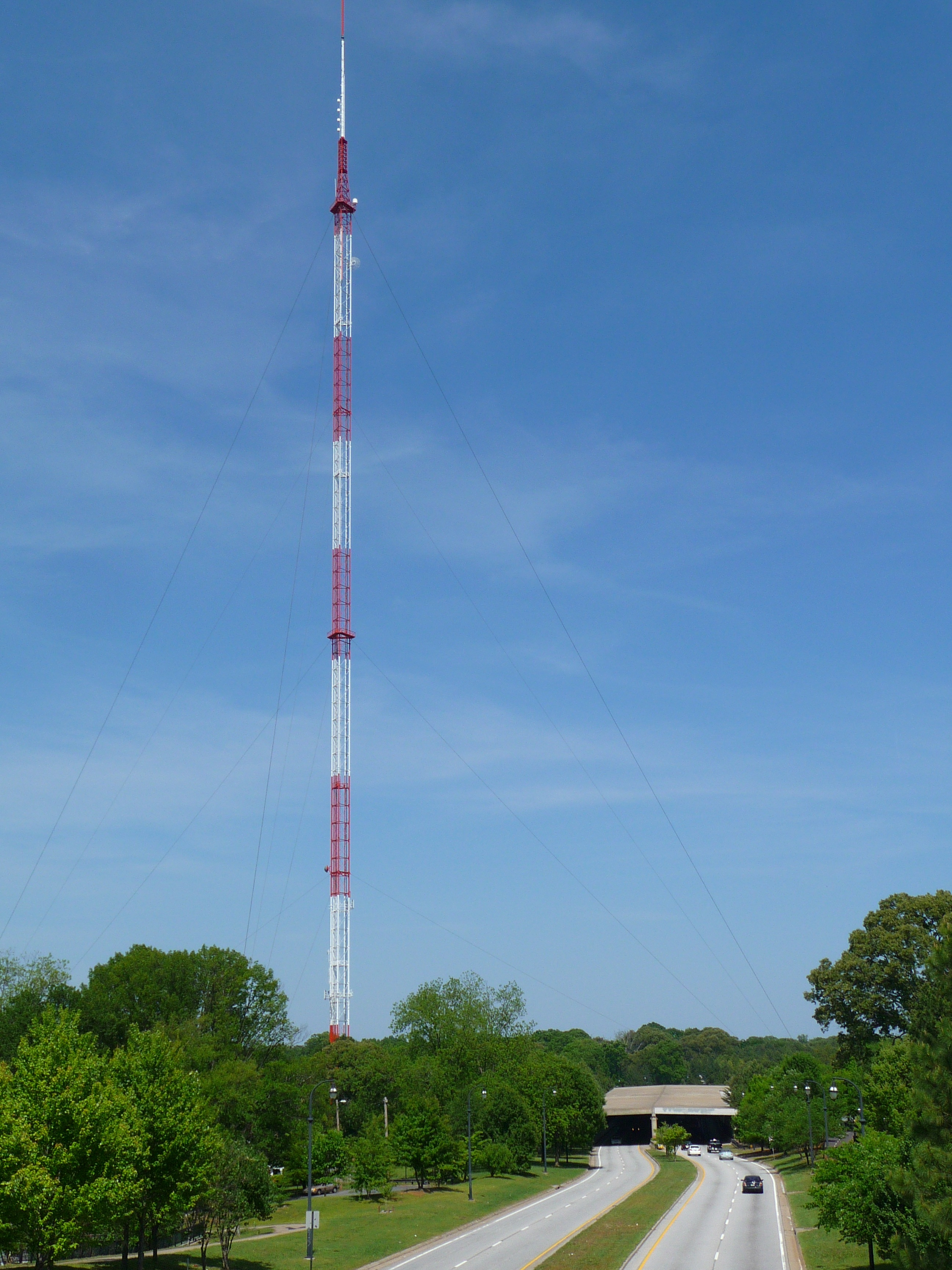 WSB-TV tower